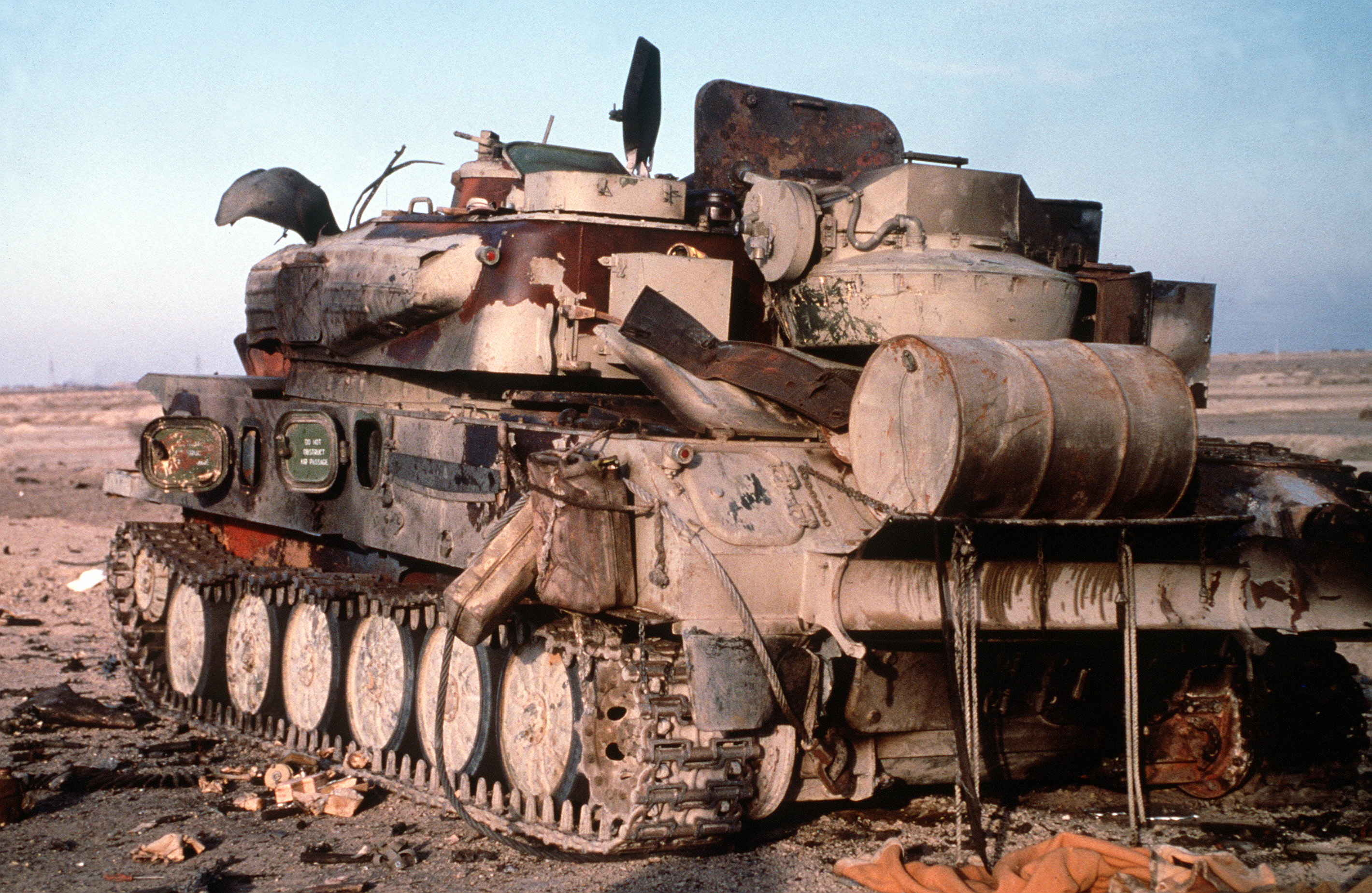 An abandoned Iraqi ZSU-23-4 "Shilka" self-propelled anti-aircraft gun lies in ruins in the Euphrates River Valley after it was demolished during Operation Desert Storm.